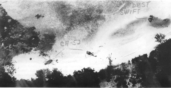 Eastern LZ at Koh Tang with 2 downed CH-53s visible, at left is Knife 23 at right is Knife 31. which was hit by an RPG round fired from the tree line at middle right. Cambodian Swift boat, upper right, was knocked out by Air Force A-7s